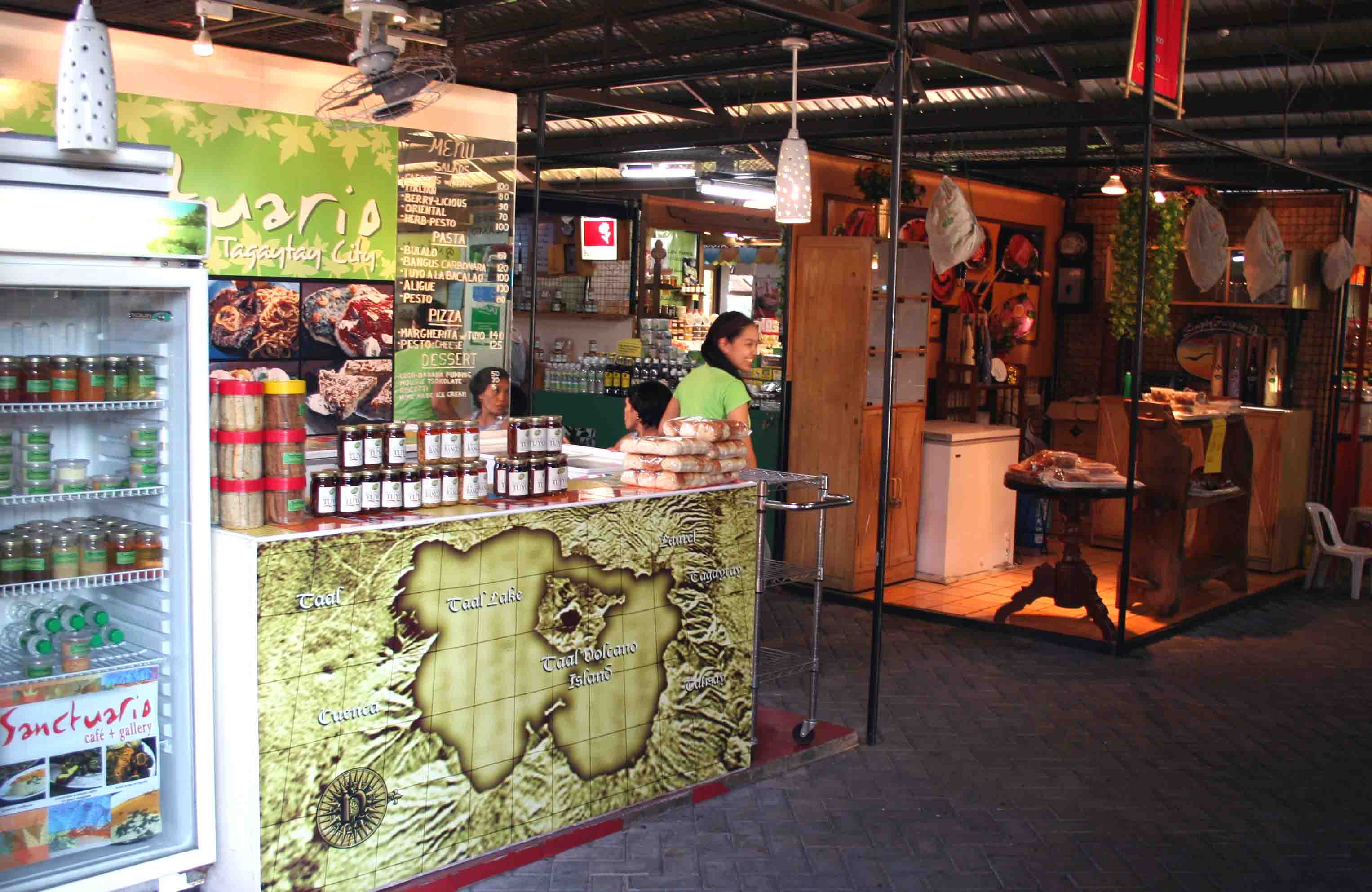 Picture of Delicacies Village in Tiendesitas